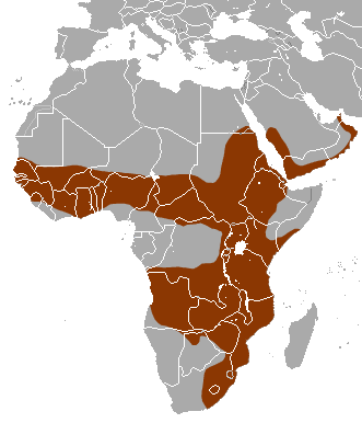 White-tailed Mongoose (Ichneumia albicauda) range